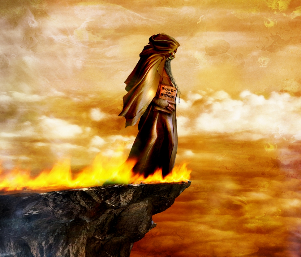 Wiseman, after he managed to escape from his incarceration and rescue the book of knowledge entitled: Words Of Wisdom.